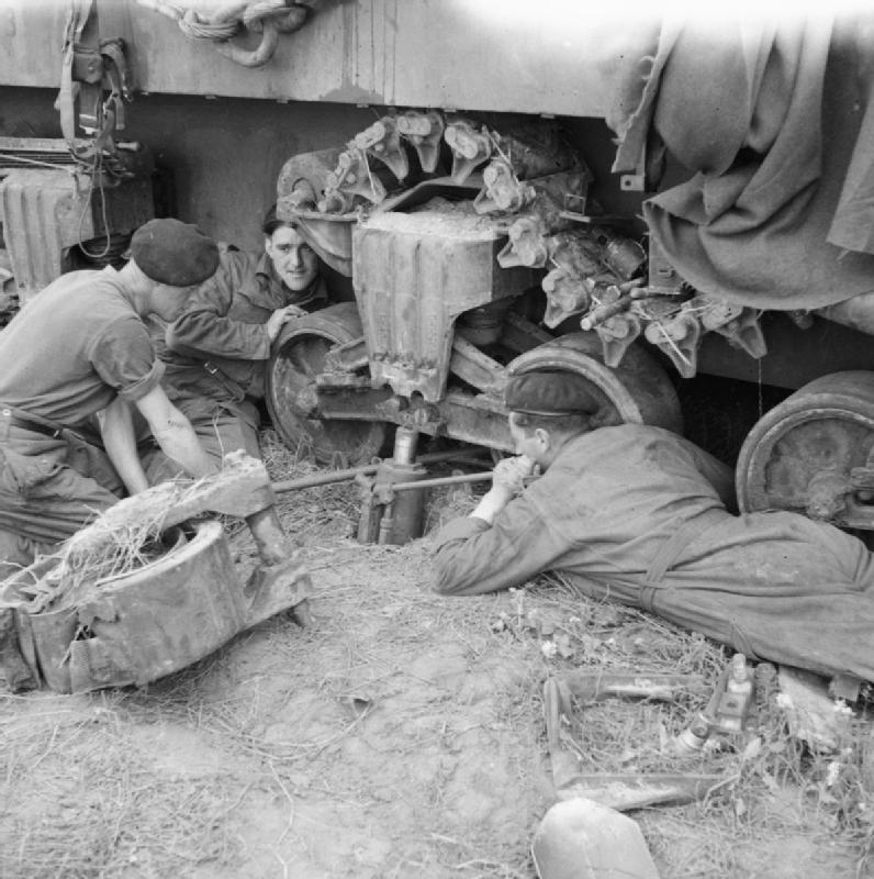 The British Army in Normandy 1944 The crew of a Sherman tank of the Westminster Dragoons (2nd County of London Yeomanry) repairing damage to one of its suspension units caused by an 88mm anti-tank shell, 7 June 1944.